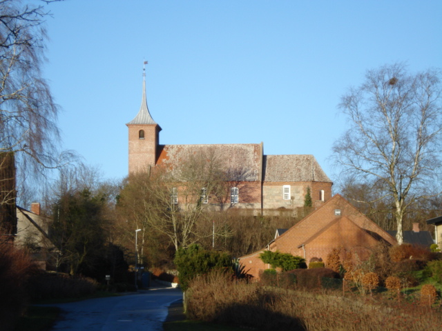 Hvilsager Church, Jutland, Denmark